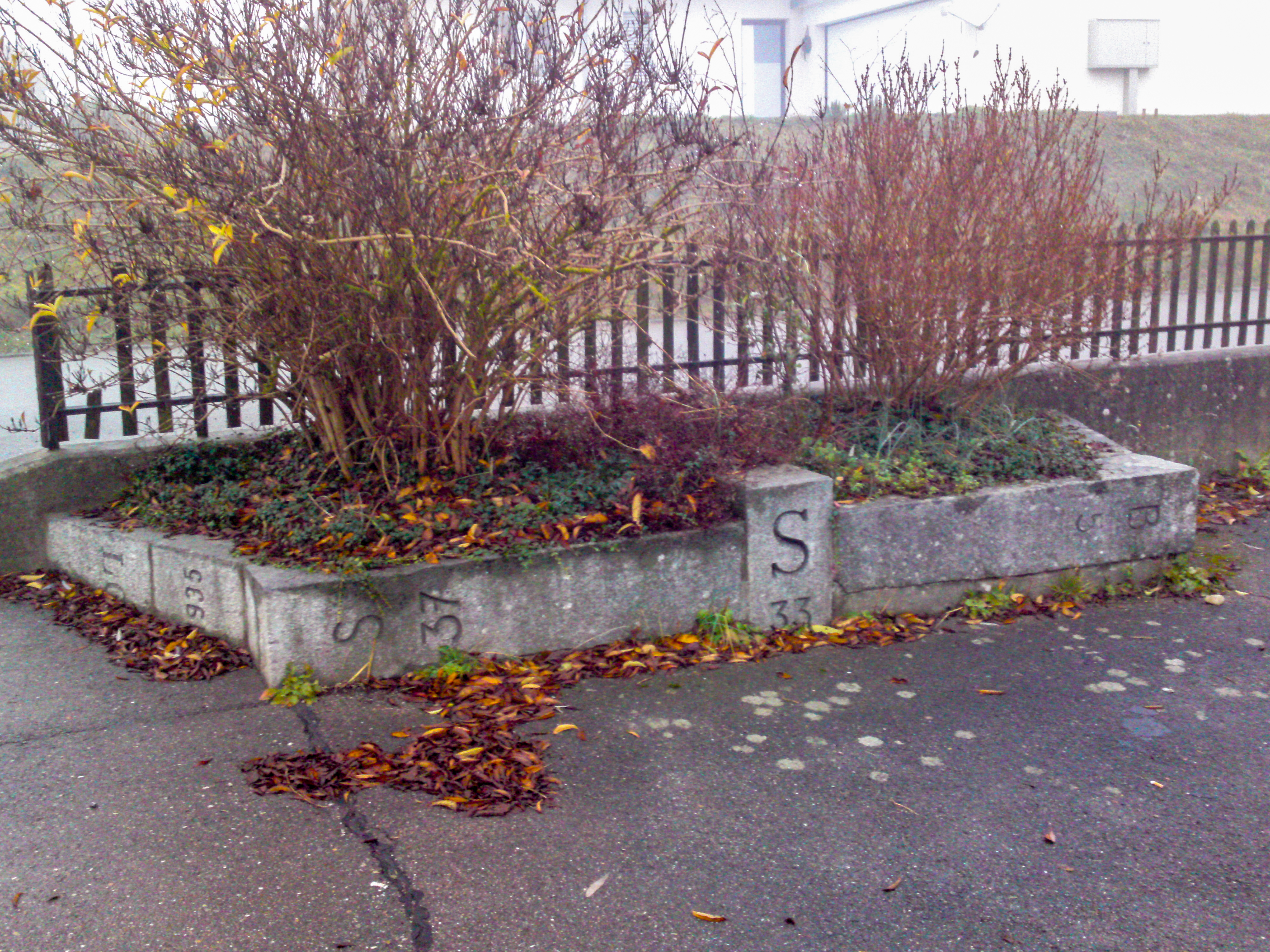 Decommissioned landmarks in Buettenhardt (Switzerland).